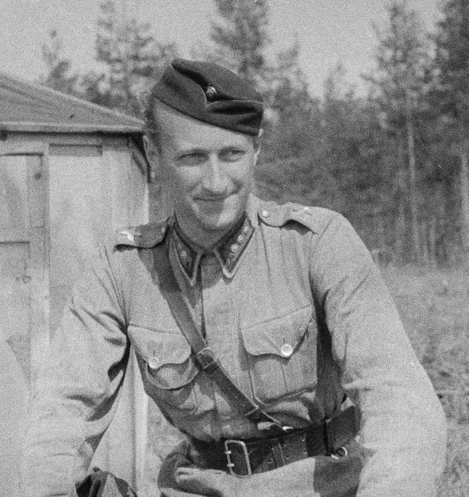 Olli Puhakka, Knight of the Mannerheim Cross #175.